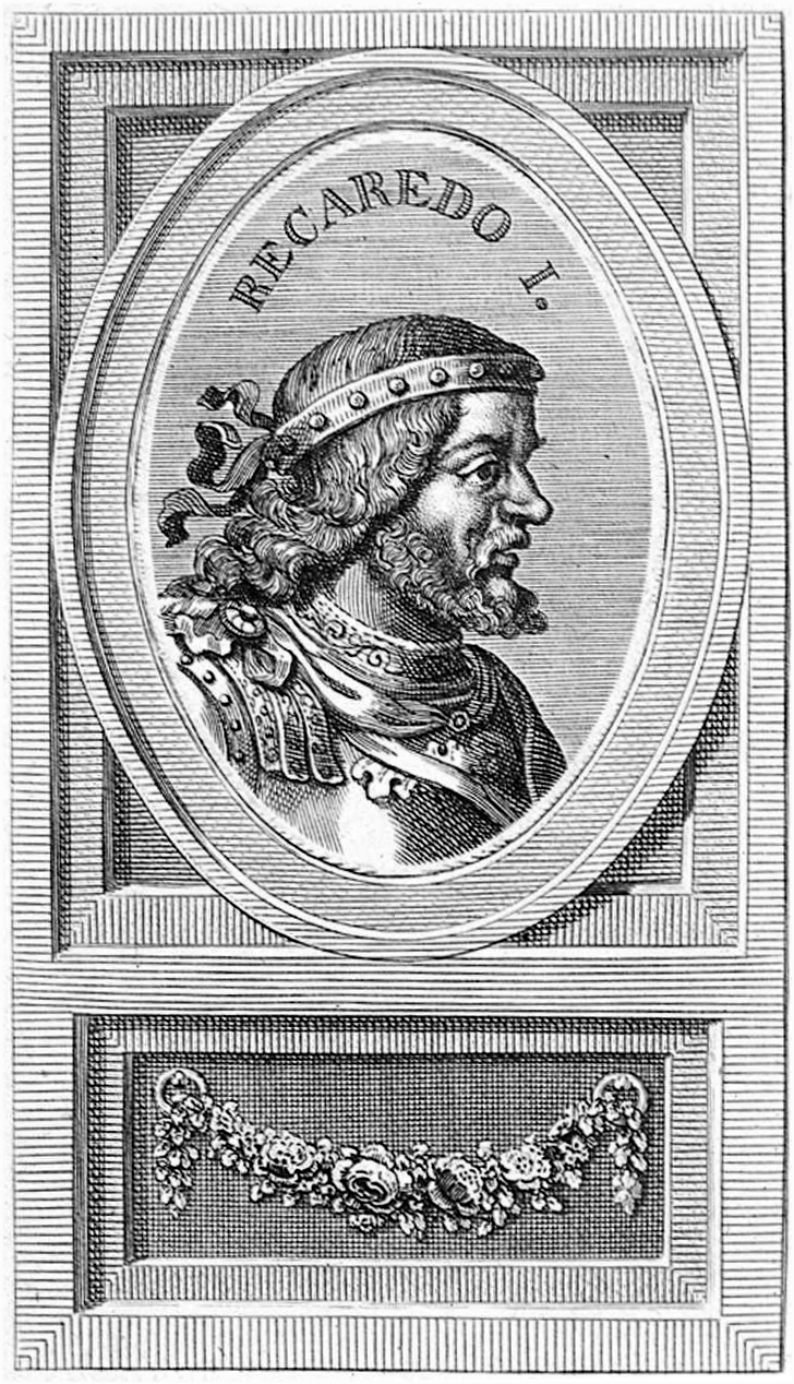 Recared I, the first Visigothic king of Hispania converted to Catholicism